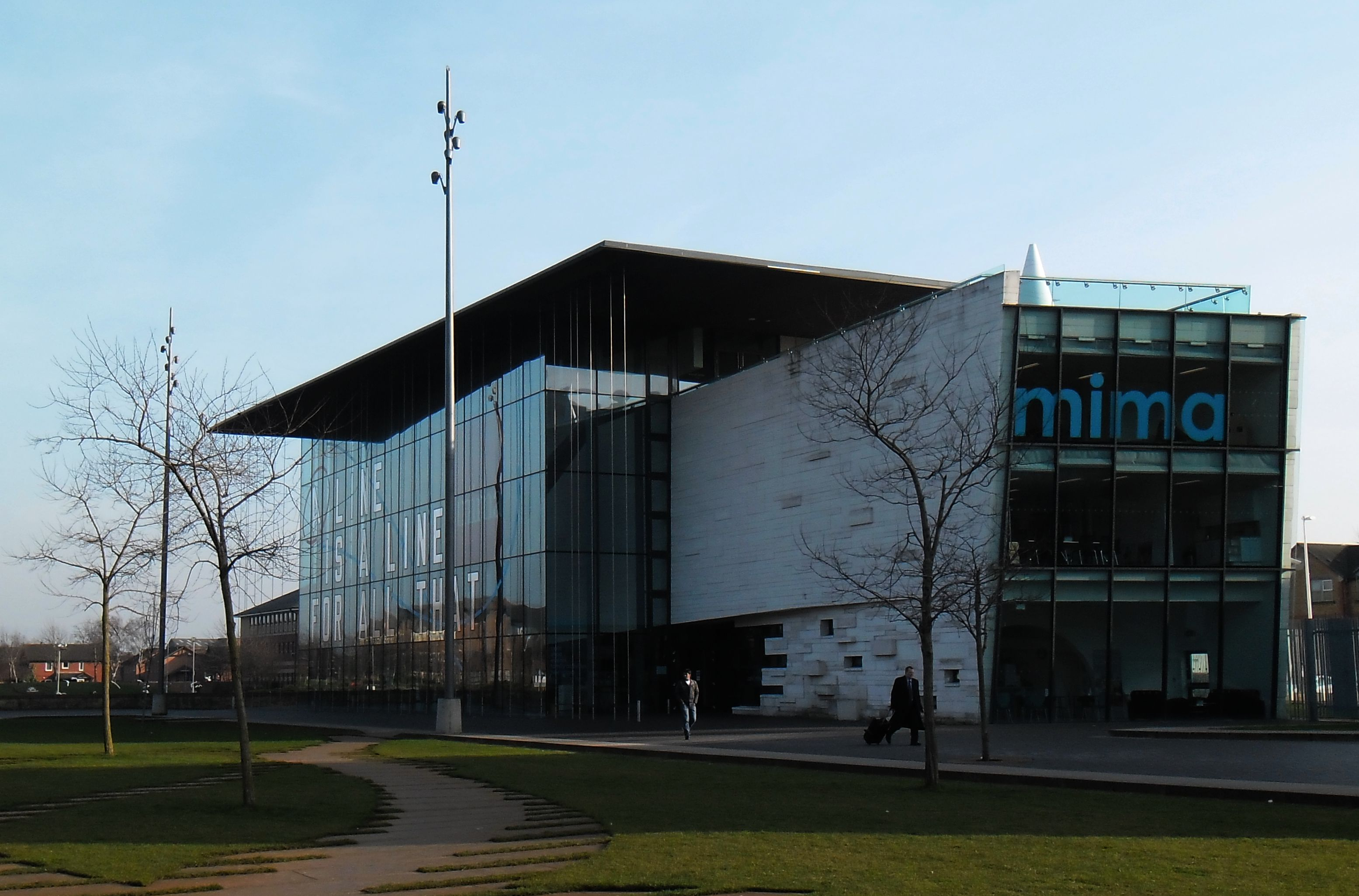 The Middlesbrough Institute of Modern Art is in Middlesbrough, United Kingdom